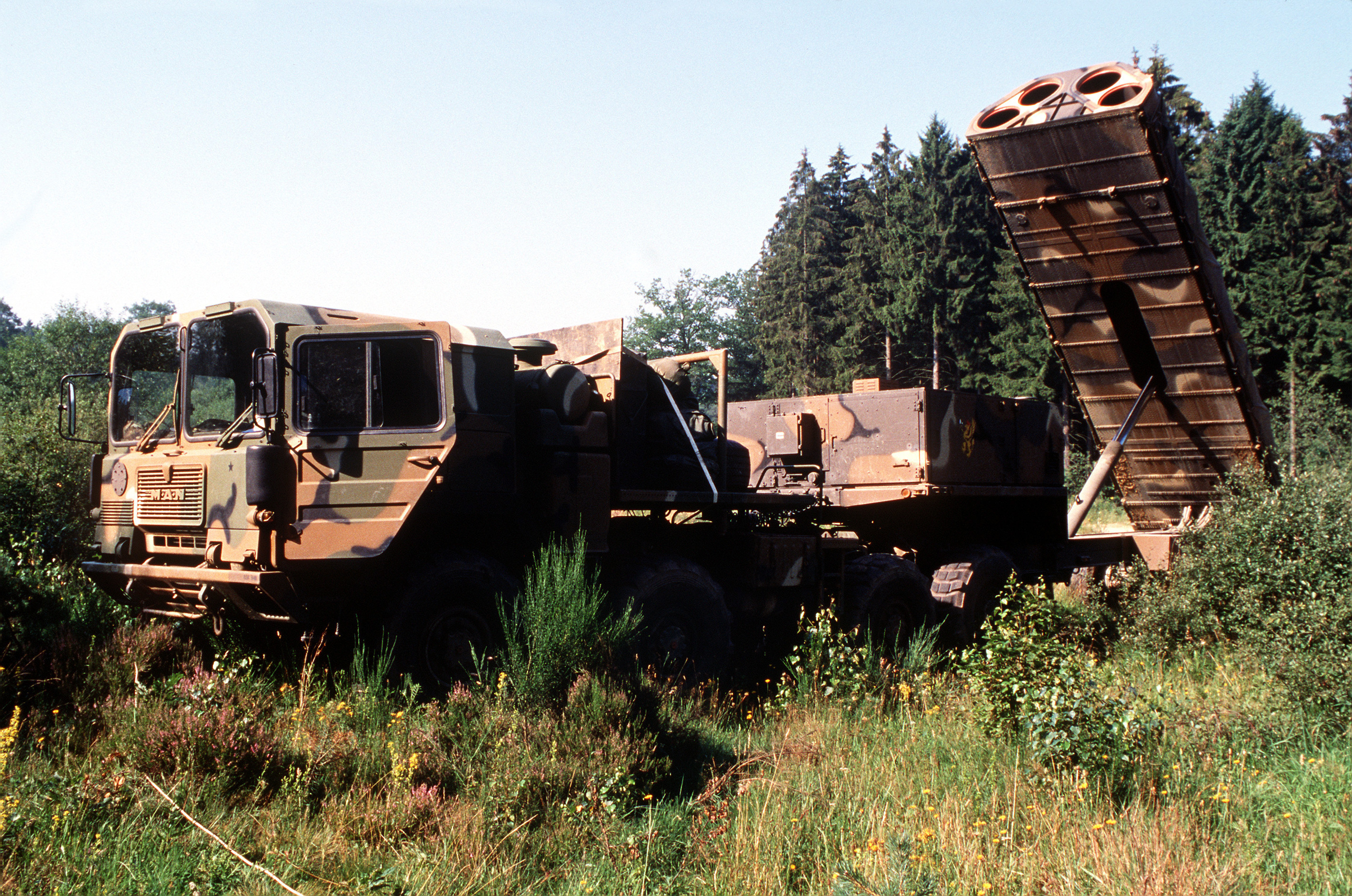 A transporter-erector-launcher (TEL) for the BGM-109G ground launched cruise missile stands in raised position as members of the 485th Tactical Missile Wing conduct a simulated launch. The TEL is pulled by an M-1014 German MAN tractor.